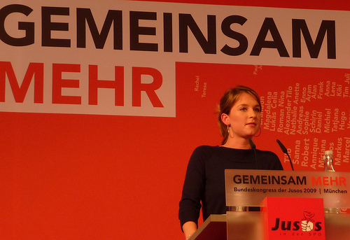 Franziska Drohsel